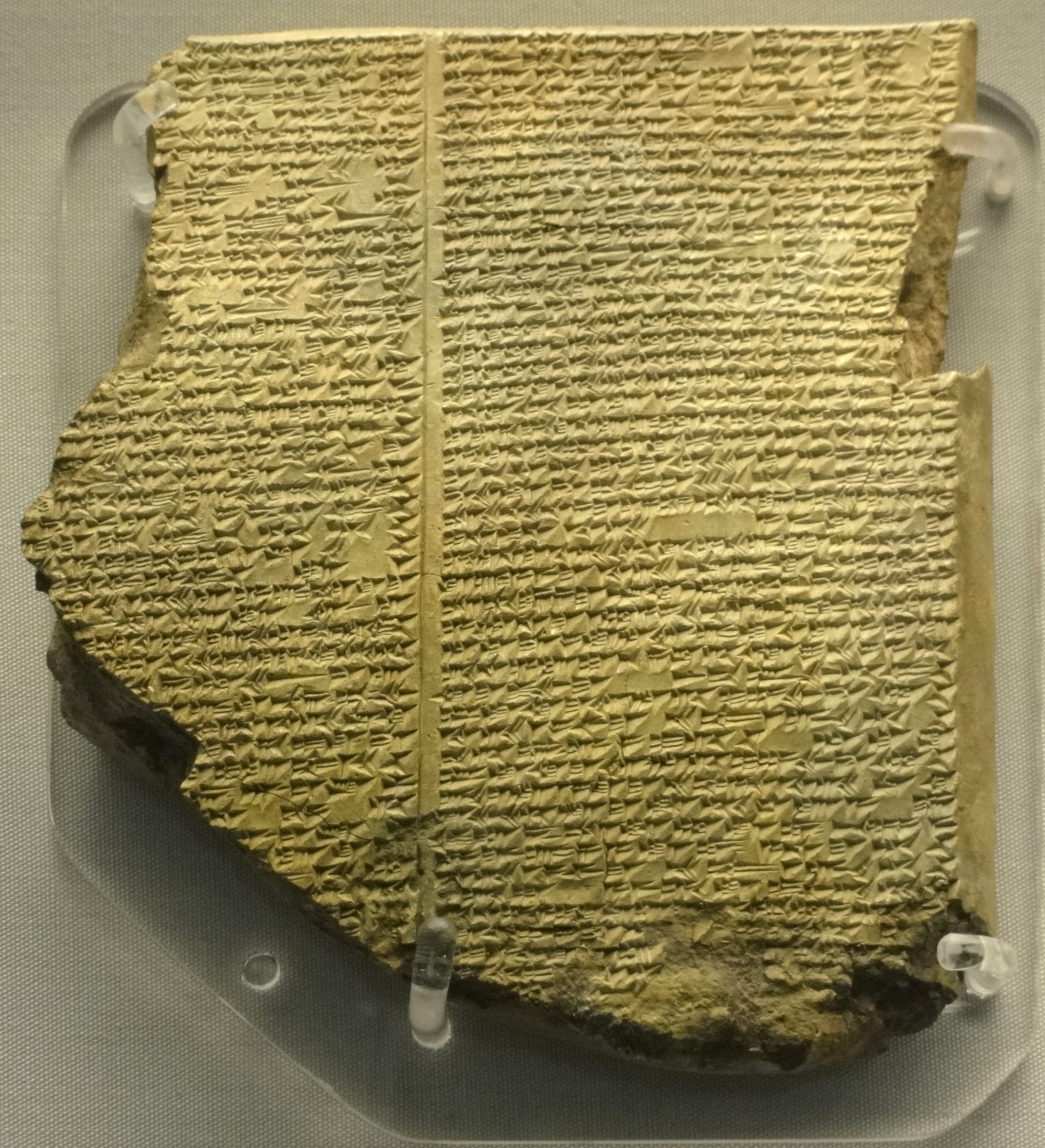 Library of Ashurbanipal / The Flood Tablet / The Gilgamesh Tablet